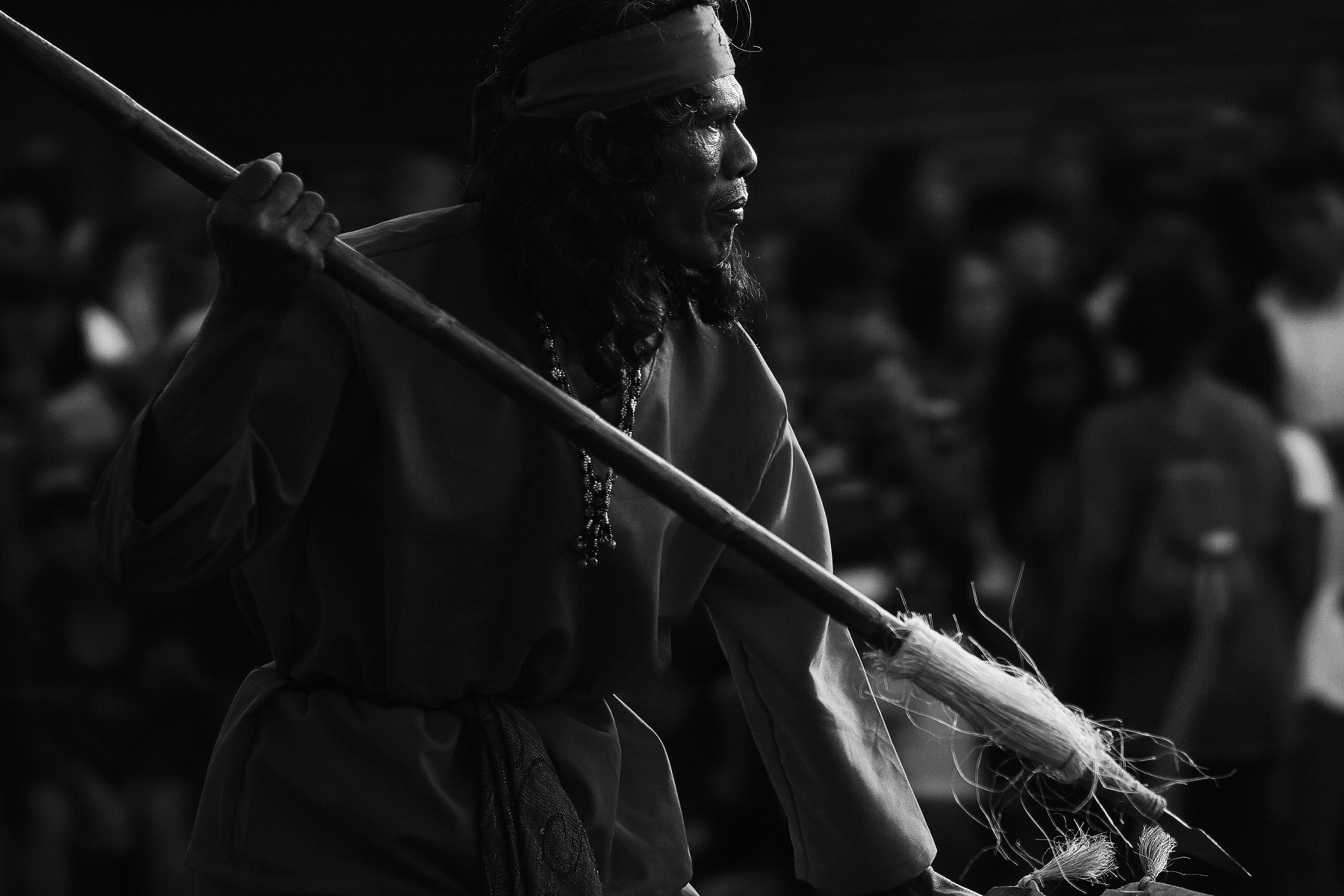 A Datu (Male tribal leader), during Kaamulan festival in Bukidnon, Philippines. This photo has been taken in the country: Philippines